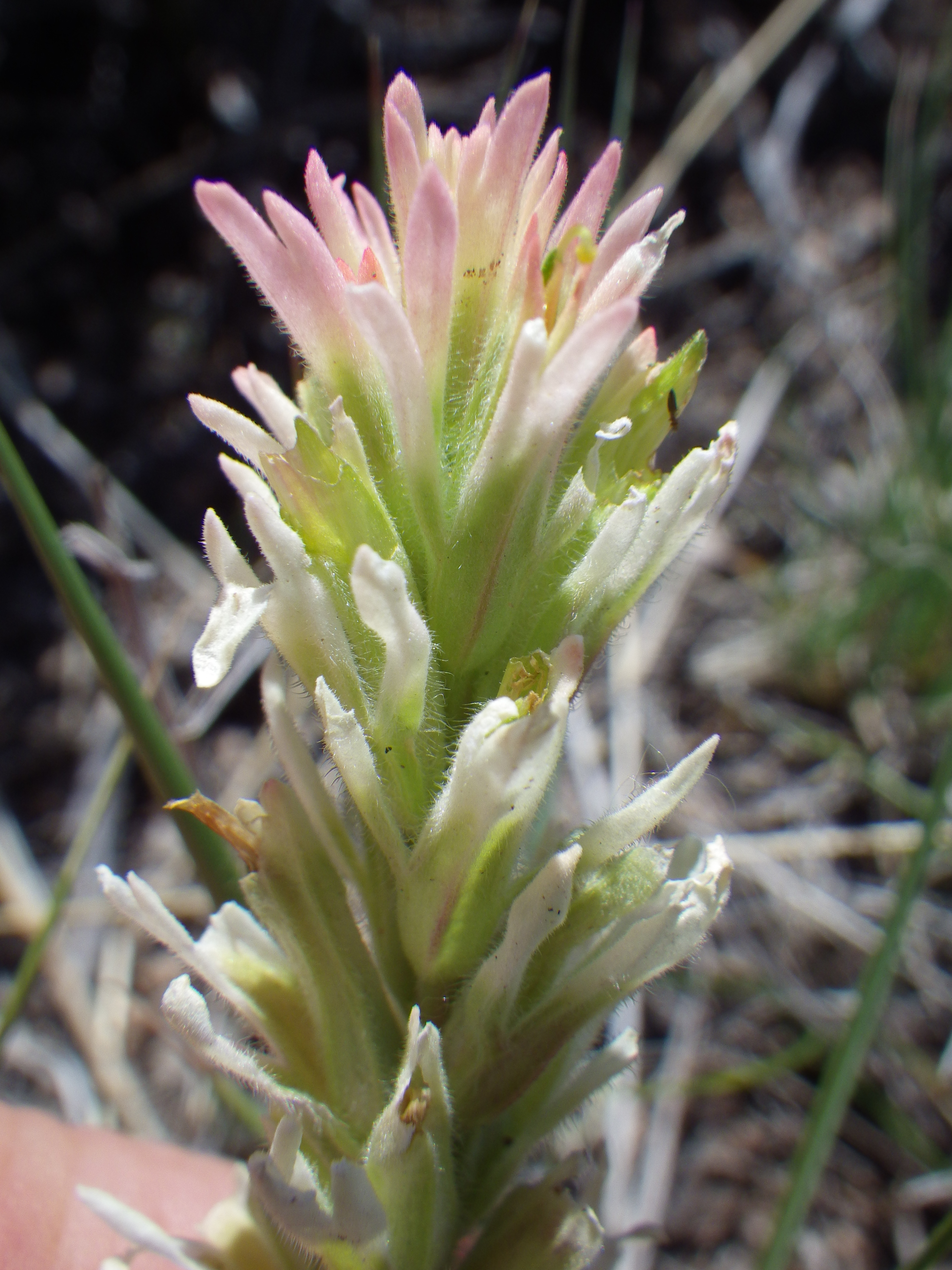 A common herb in the low elevation black sagebrush steppe of the Pryor Gap region, the elongating inflorescence is very suggestive of C. angustifolia but the mult-colored inflorescences in a population are suggestive of C. chromosa.